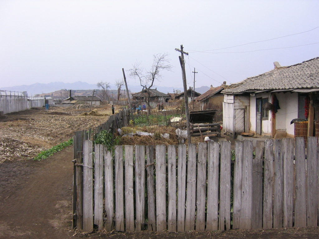 Vegetable growing in North Korea